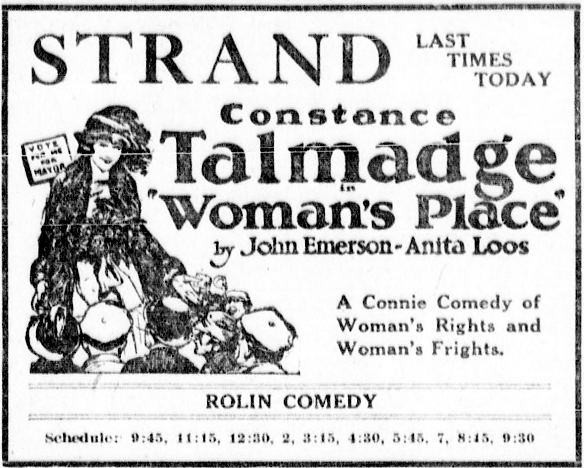 Woman's Place is a 1921 American comedy film by Victor Fleming. This ad is from the newspaper The Morning Tulsa Daily World.